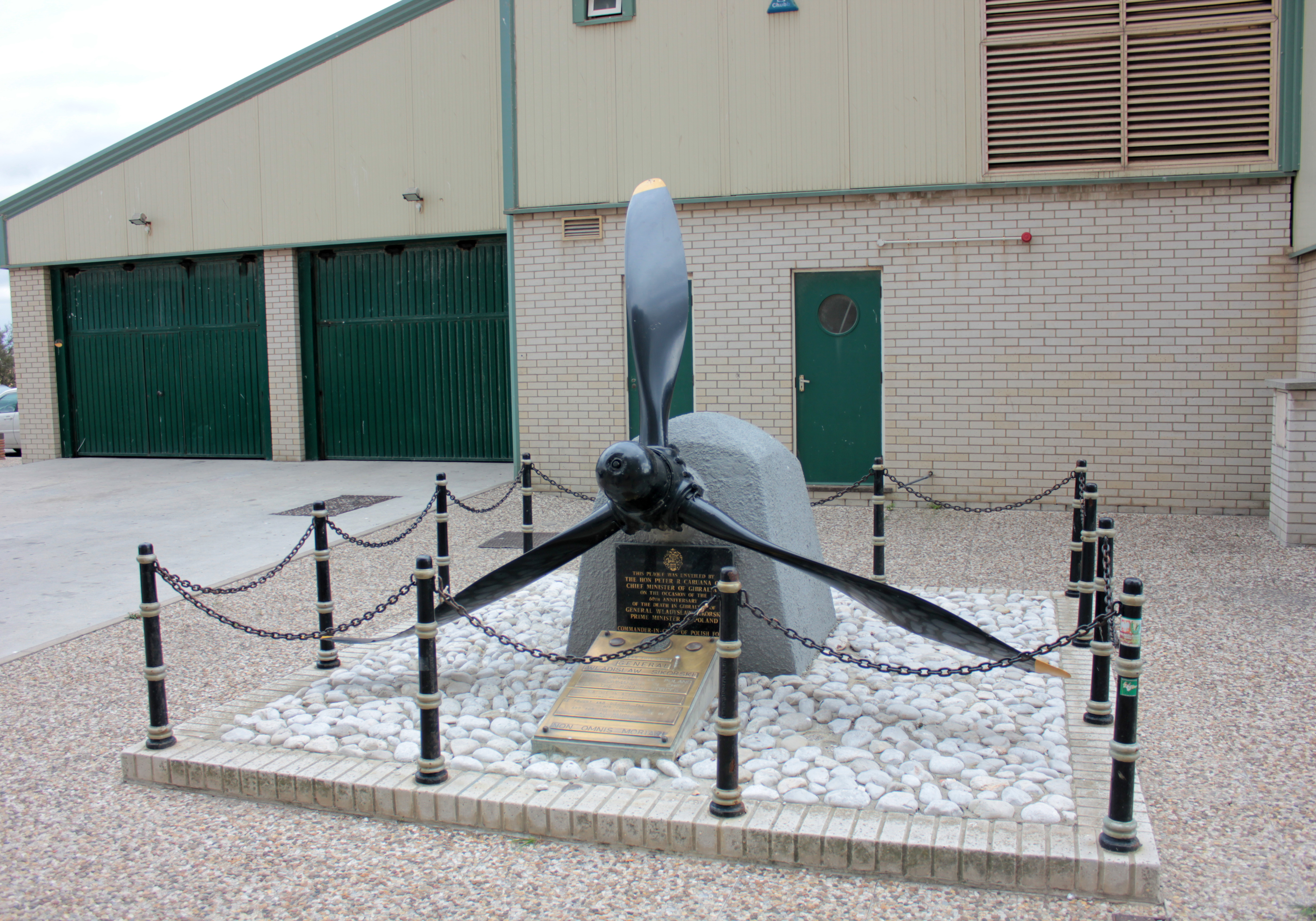 Sikorsky Memorial, Gibraltar